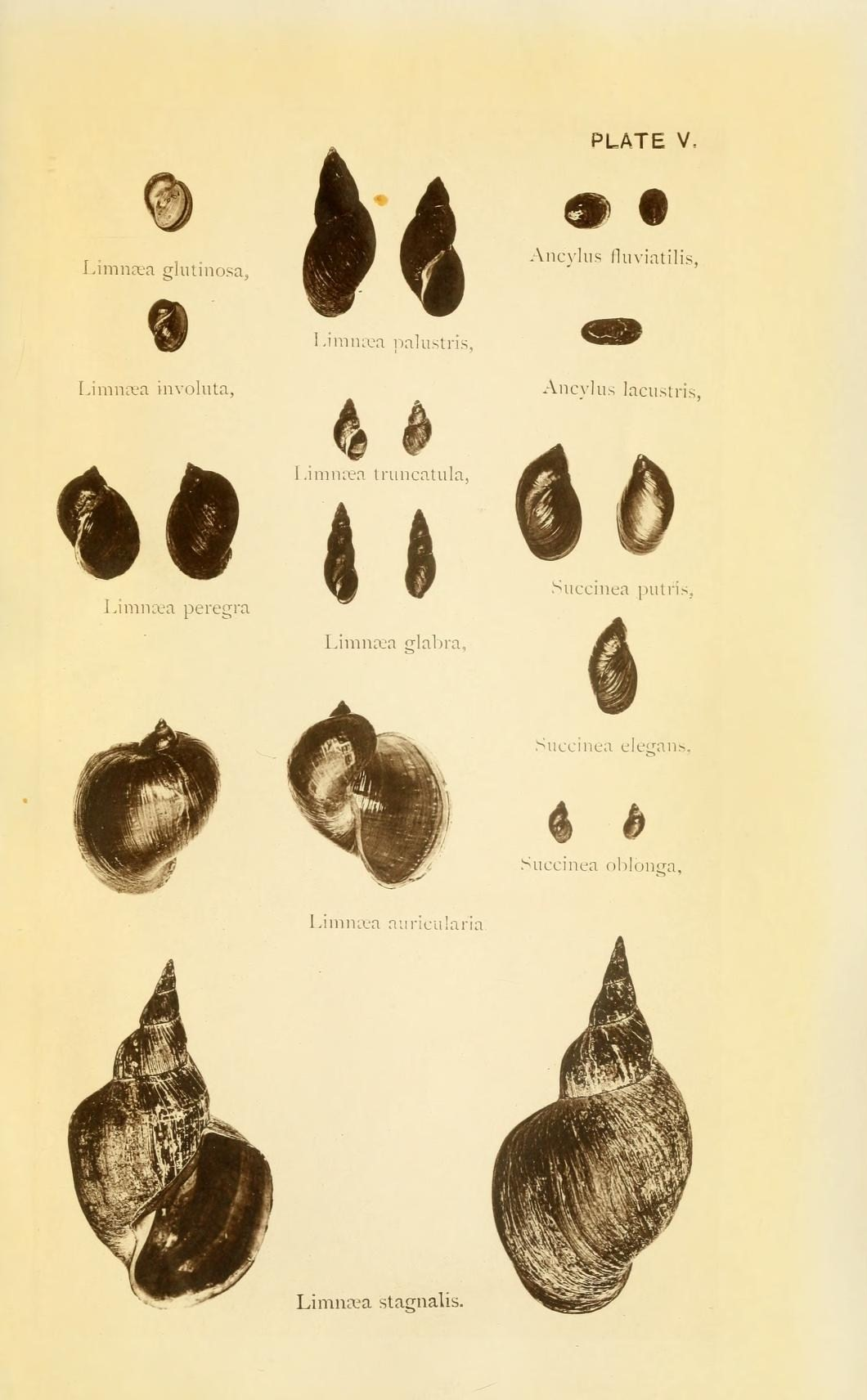 RimmerShellsLymnaea